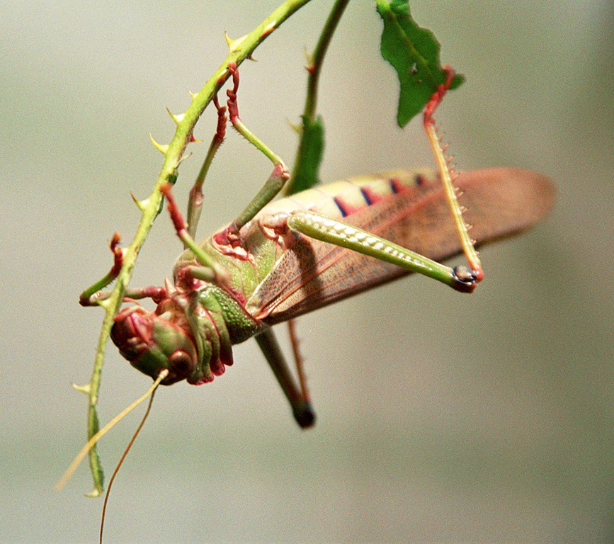 Austria, Vienna, Tiergarten Schönbrunn